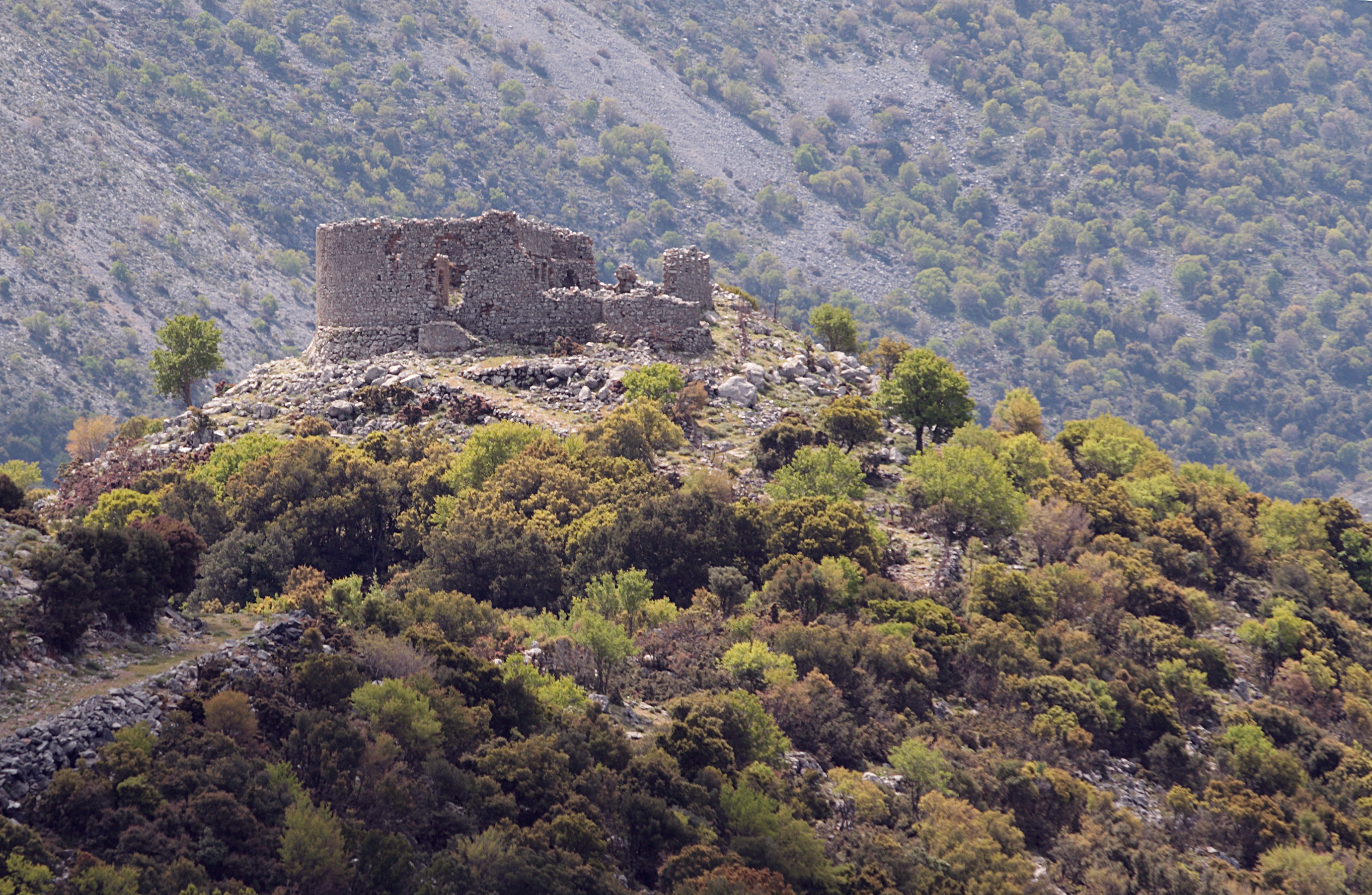 The ruins of the small fortress in Askifou, Crete